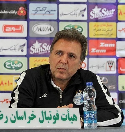 Javad Zarincheh, assistant manager of Esteghlal in press conference before Padideh-Esteghlal match